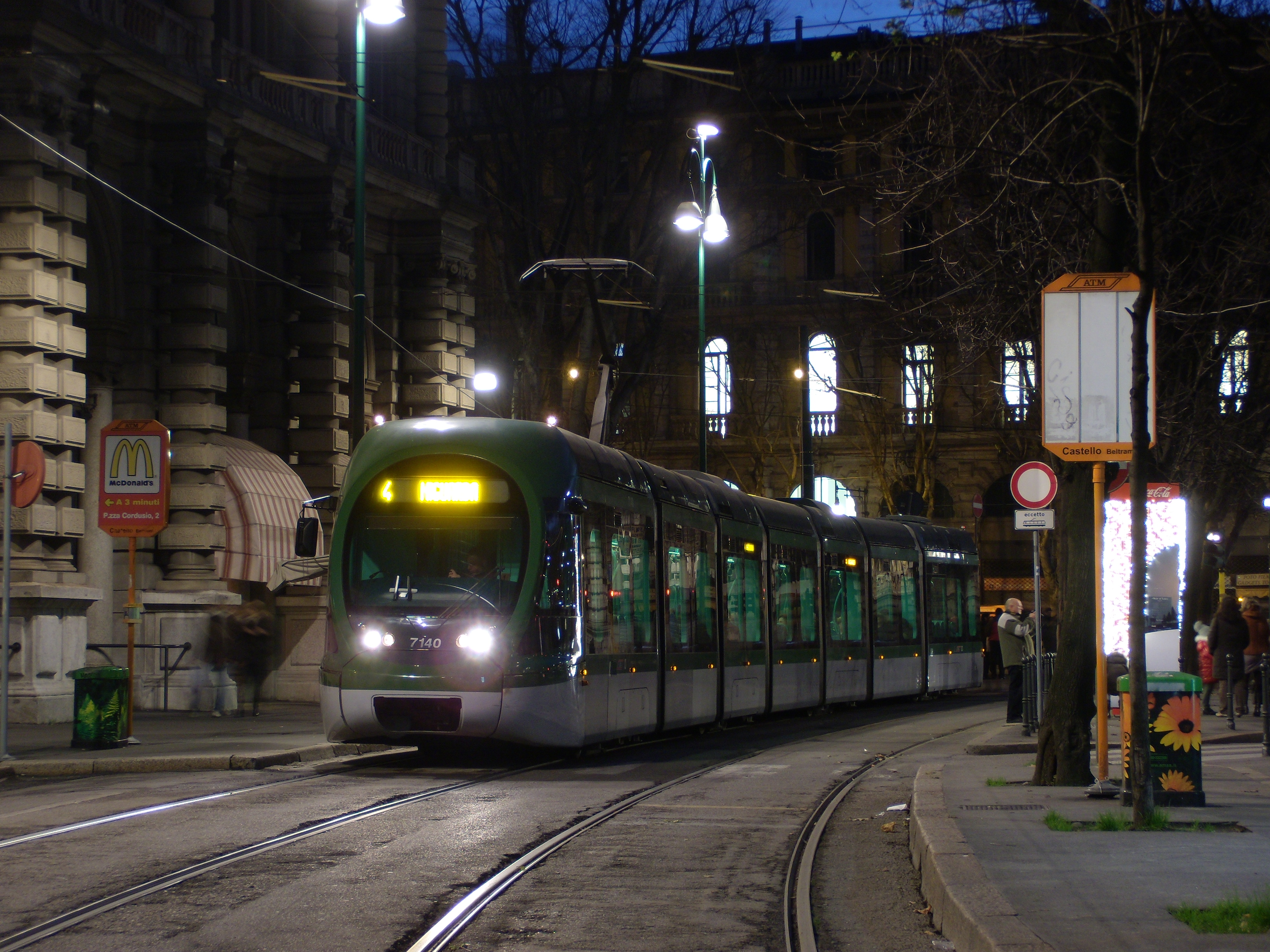 7140 in piazza Castello, a Milano